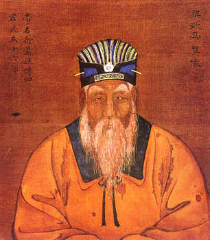 Xiao Yan, Martial Emperor of Liang in old age